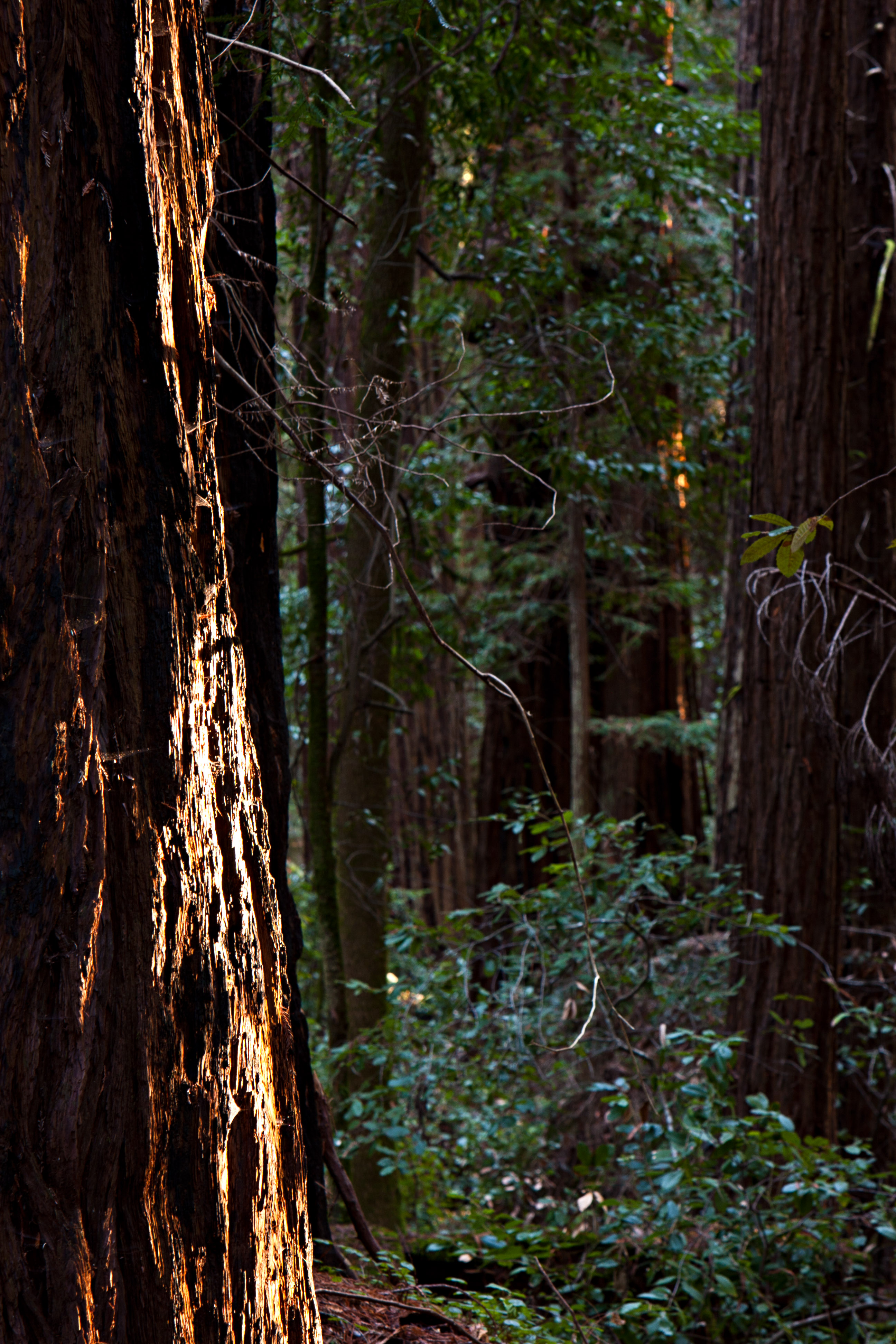 Old-growth coast redwoods (Sequoia sempervirens) in Hendy Woods State Park, Mendocino County, California.